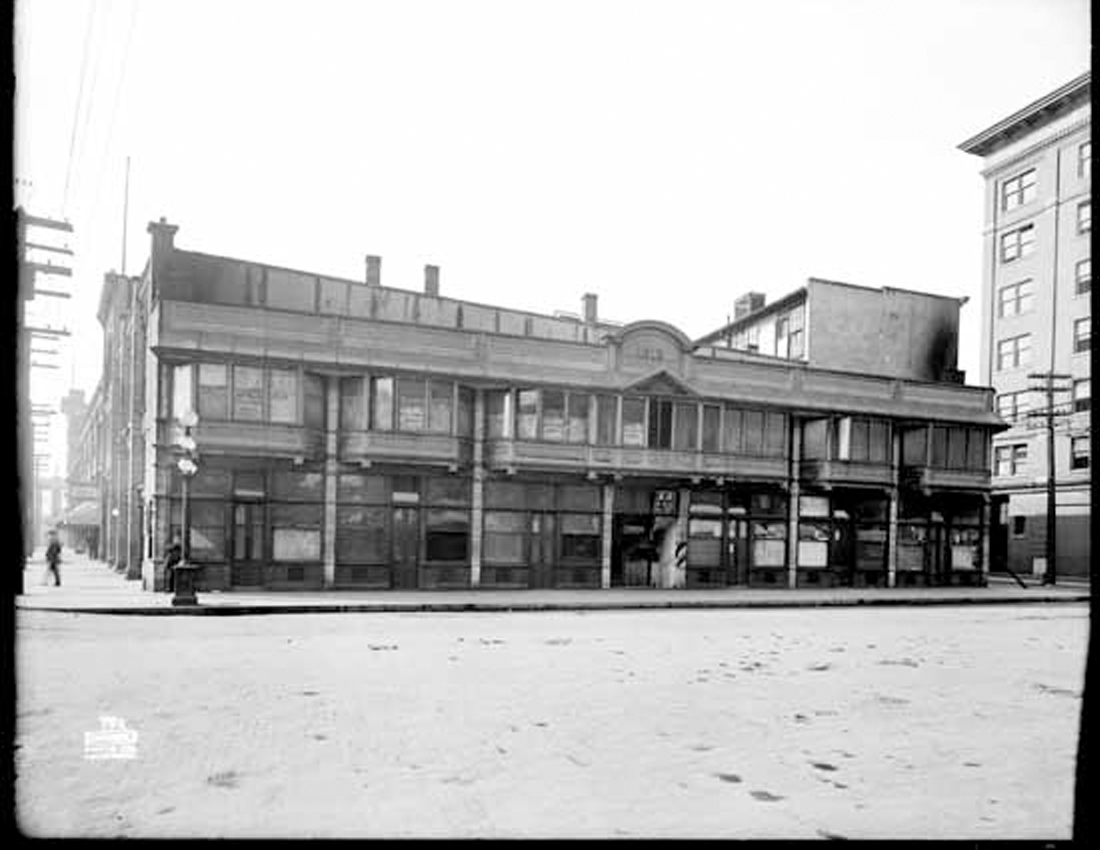 Photo of the Sam Kee building at the begging of the century